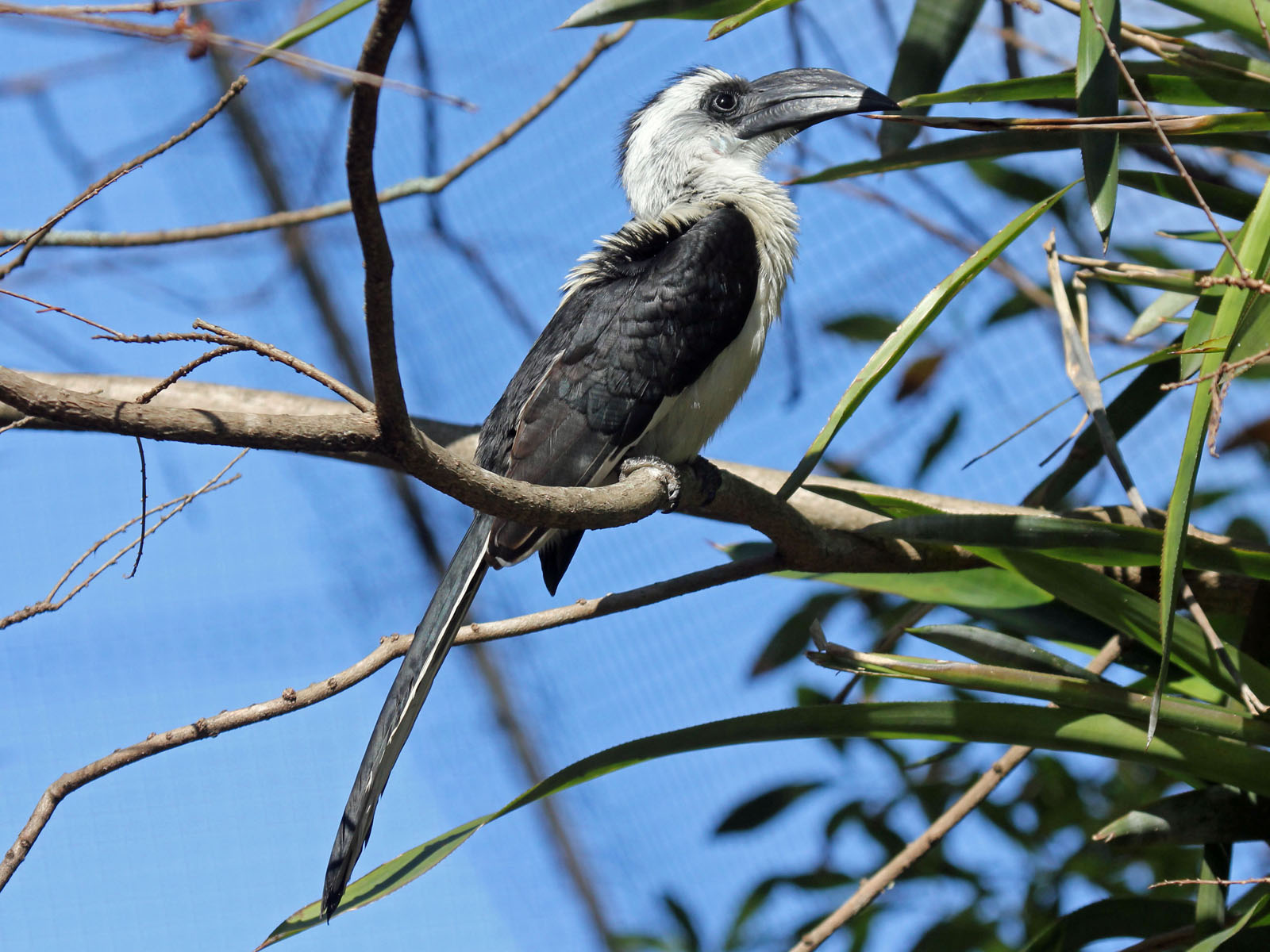 Von der Decken's Hornbill ♀ (Tockus deckeni) - Tampa's Lowry Park Zoo, Florida